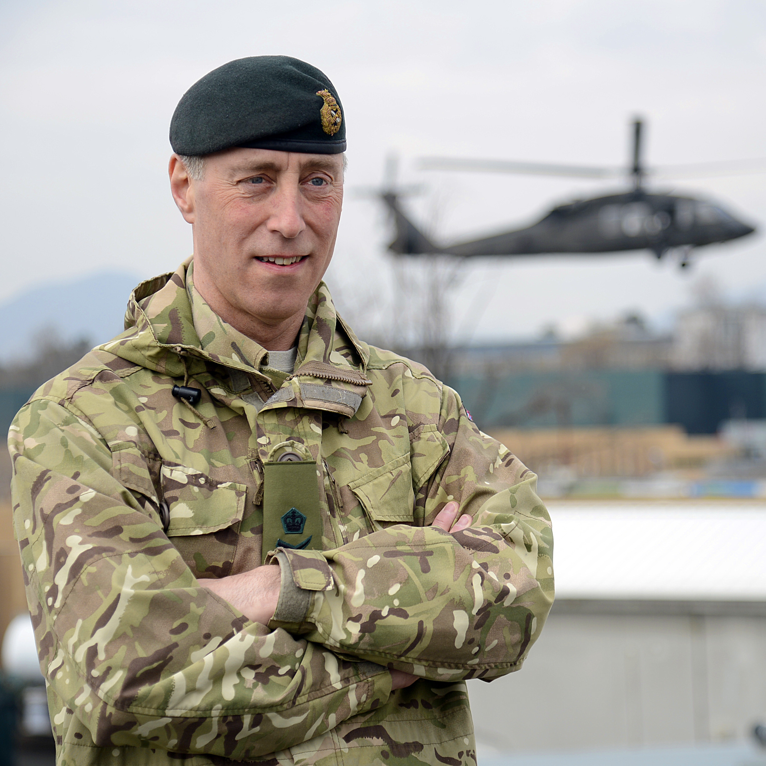 Lieutenant General Tim Radford CB DSO OBE